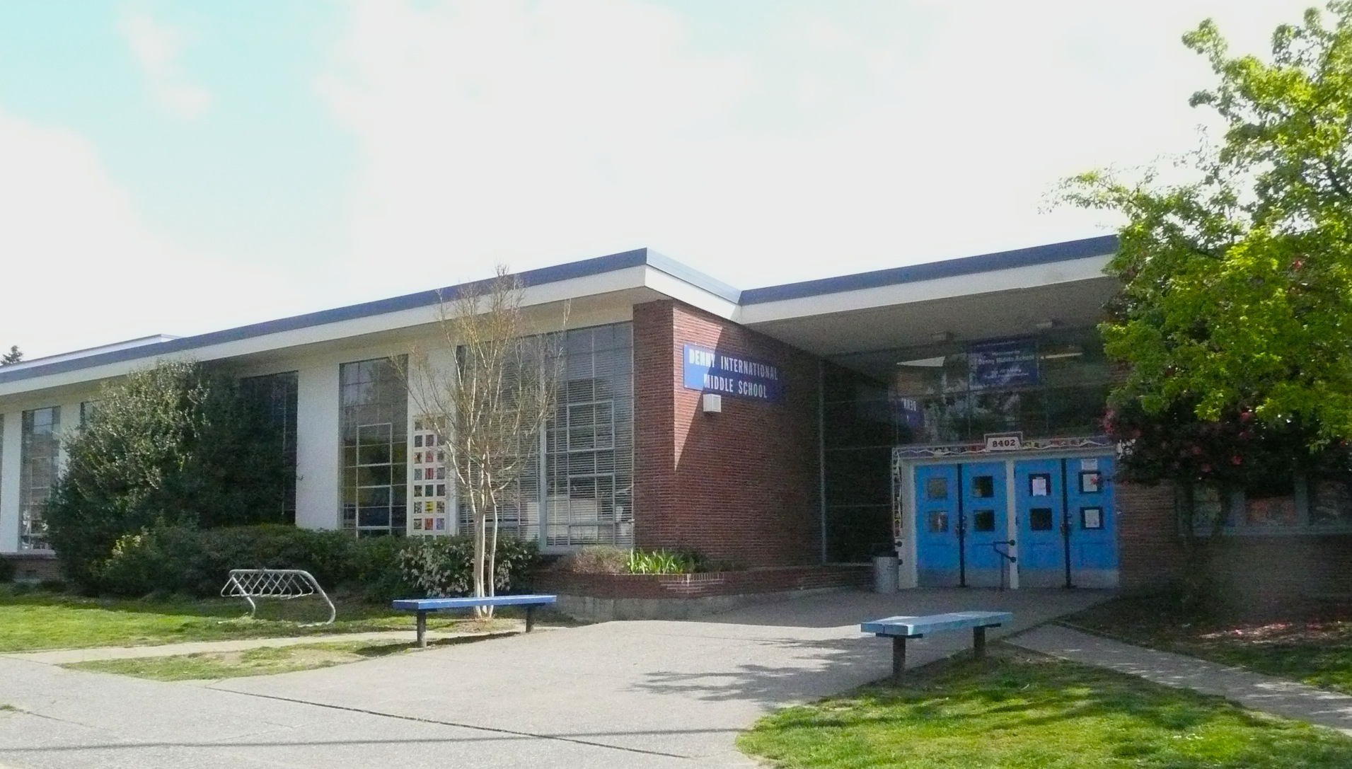 8402, 30th Avenue SW - Moving in 2011 to Serve Students. Many programs , international language classes,orchersta,steel drums,jazz band,Chineese,Spanish,and much more